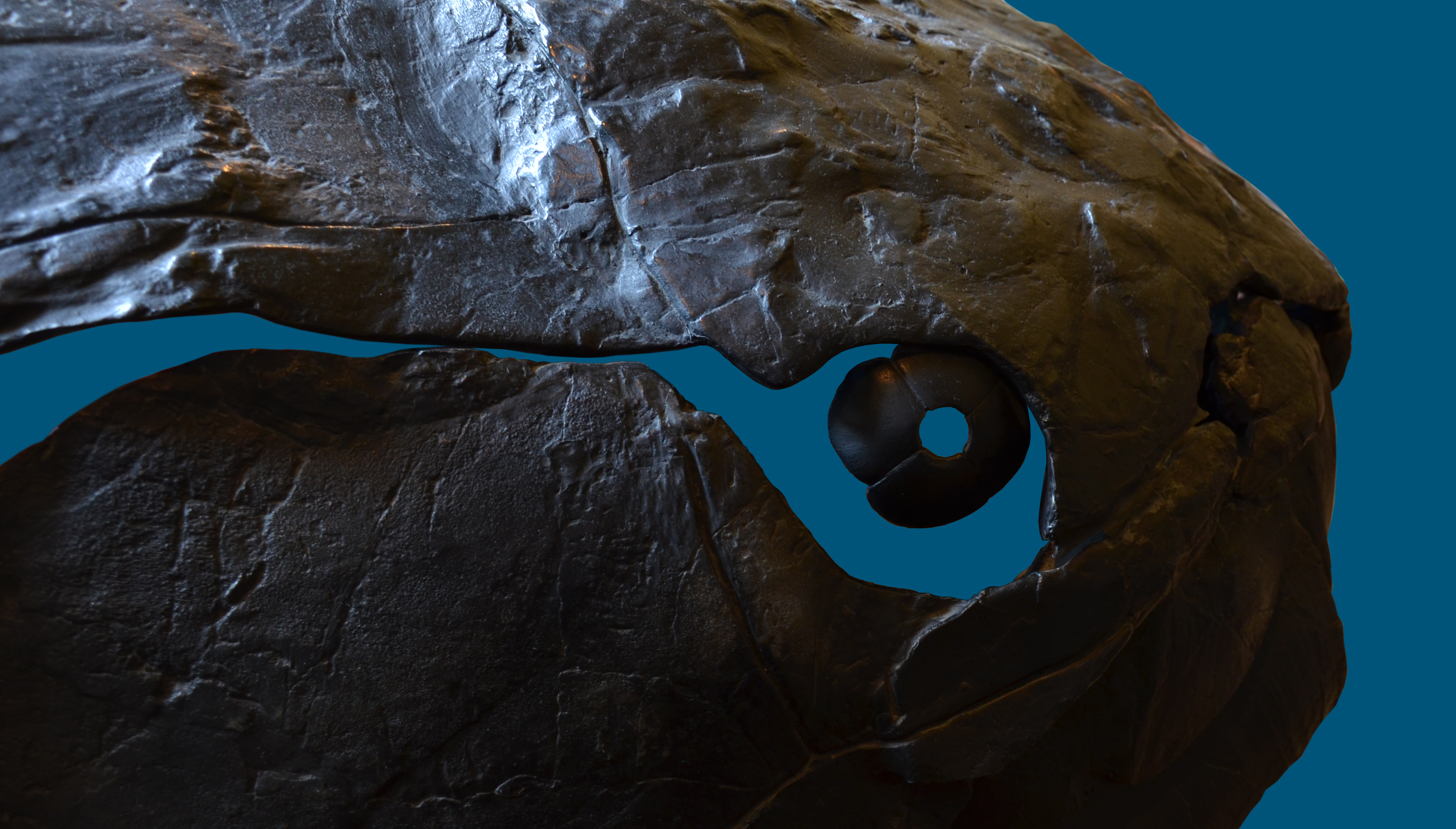 Fossil of Dunkelosteus terelli from Cleveland, Ohio : detail of the eye. Naturhistorisches Museum in Vienna ( background removed ).